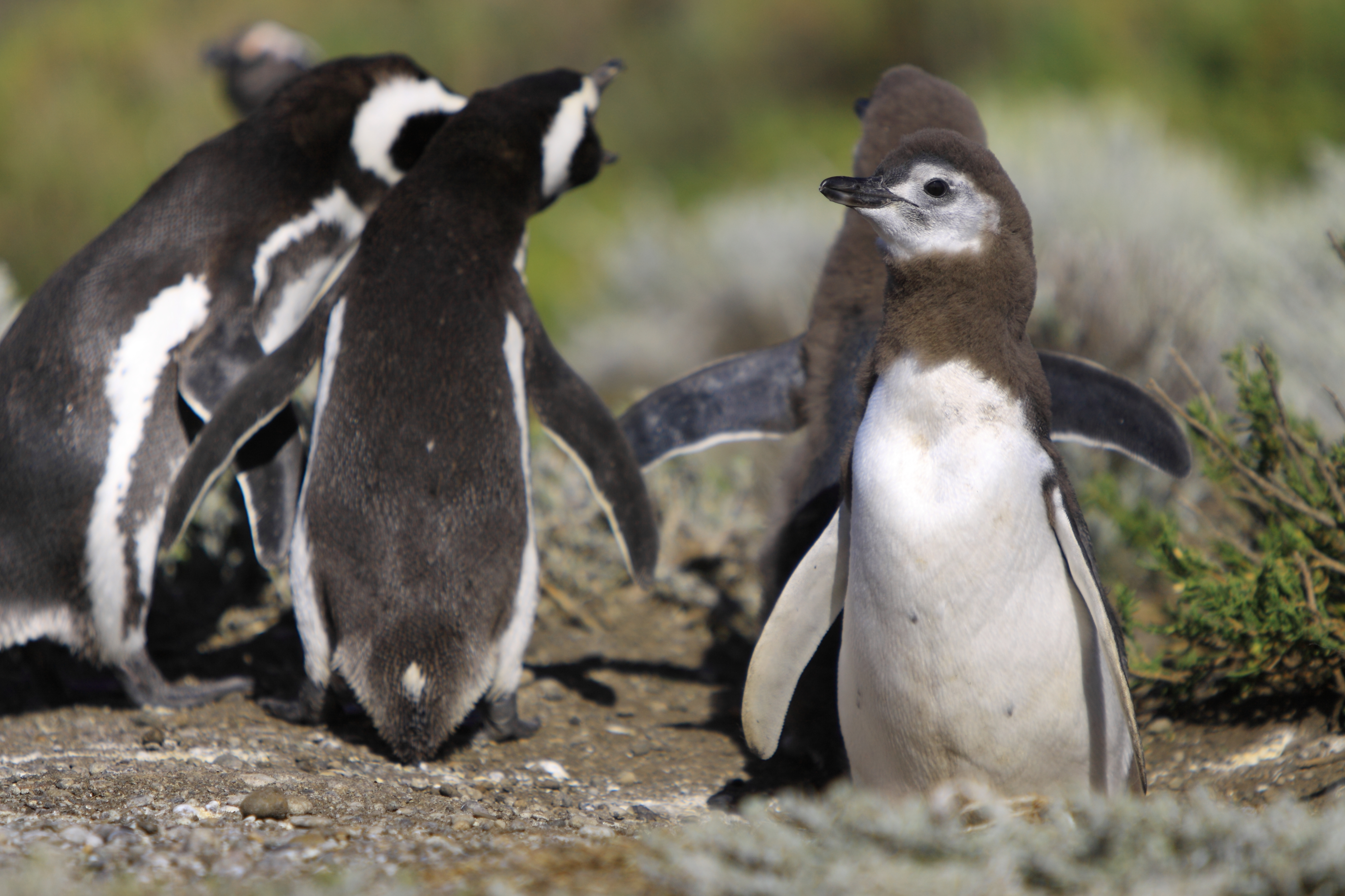 Please, have this description accessible to all by translating it in different languages.